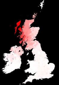 Surname distribution map of Campbell in Britain, Ireland and Mann